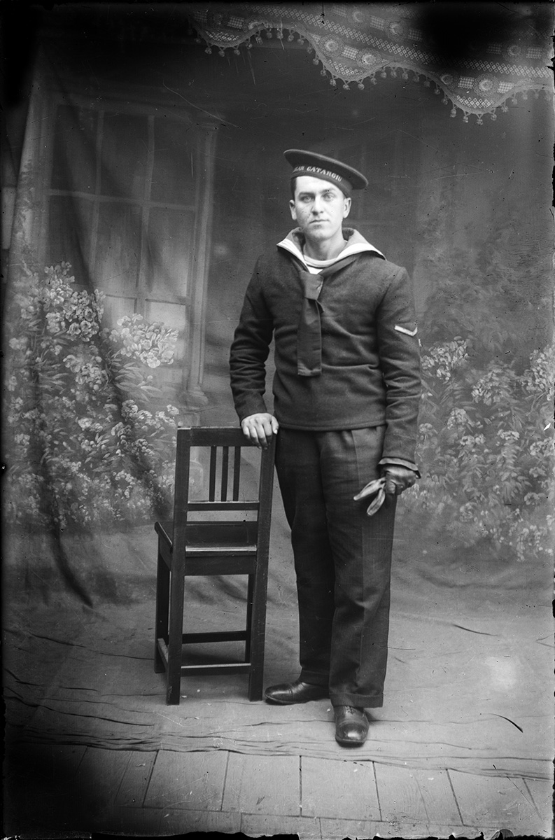 Sergeant serving with the NMS Lascăr Catargiu river monitor of the Romanian Danube fleet